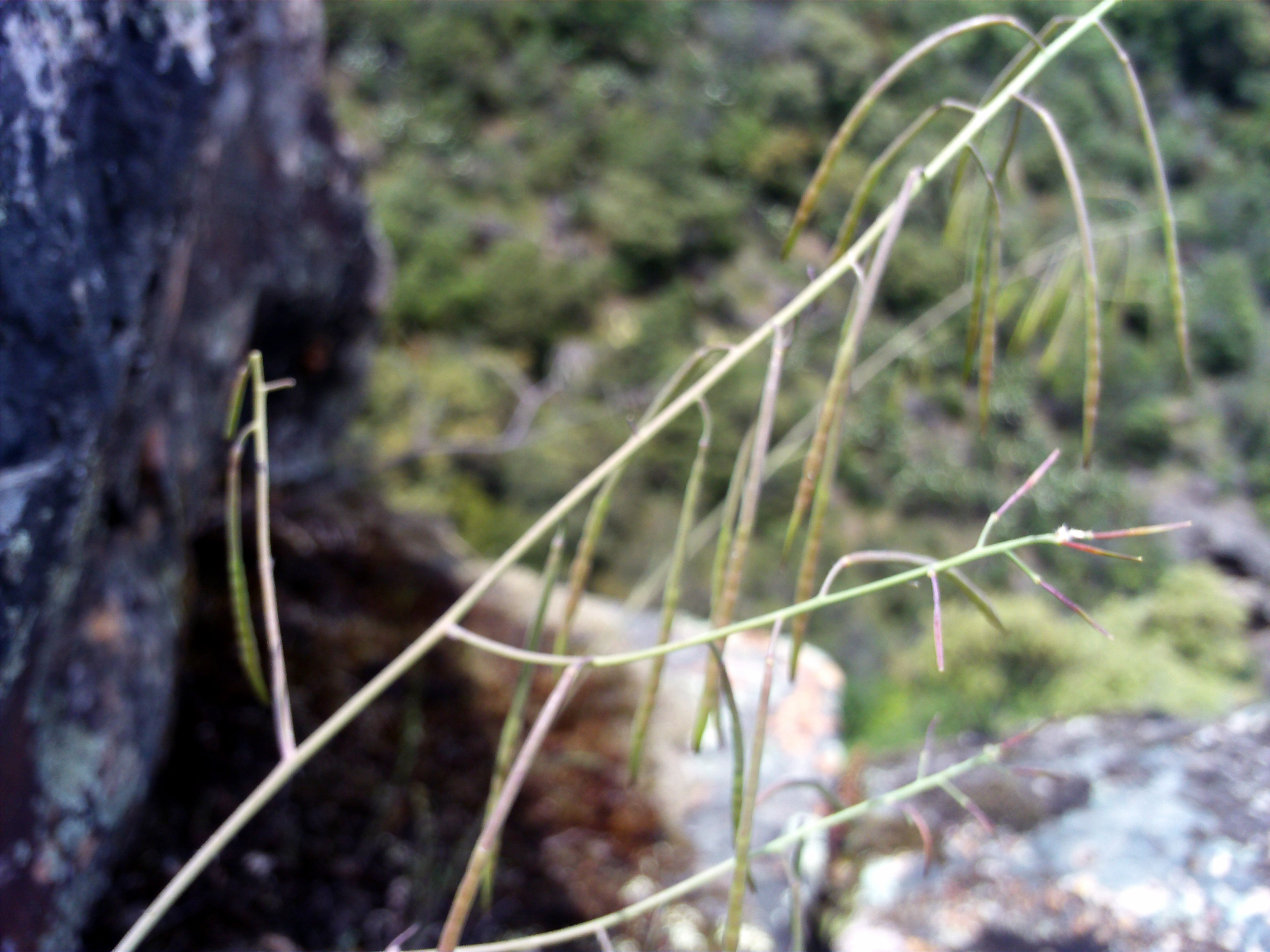 Coincya longirostra seeds pod, Sierra Madrona, Spain